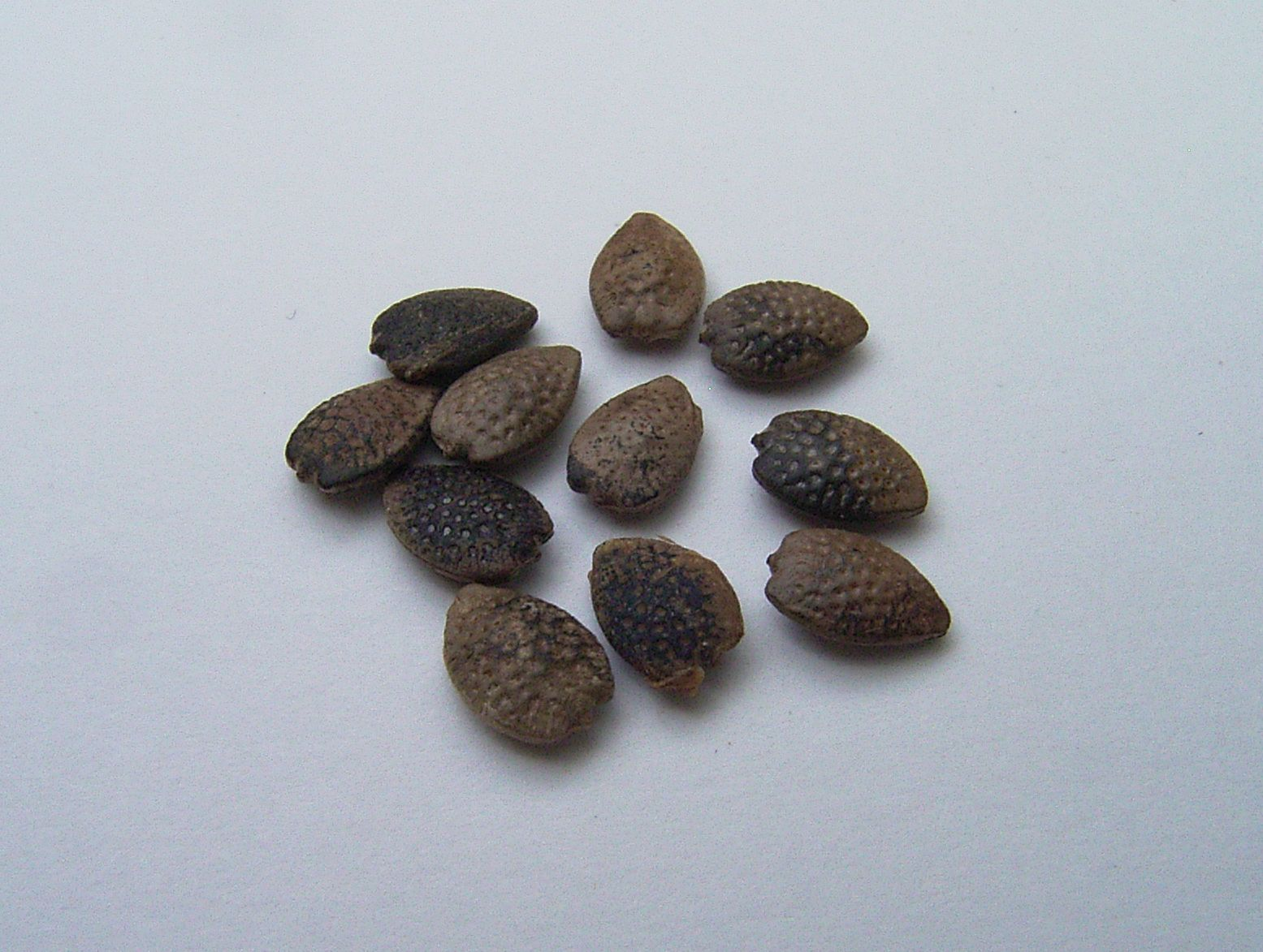 Passiflora incarnata, seeds (length about 6mm)